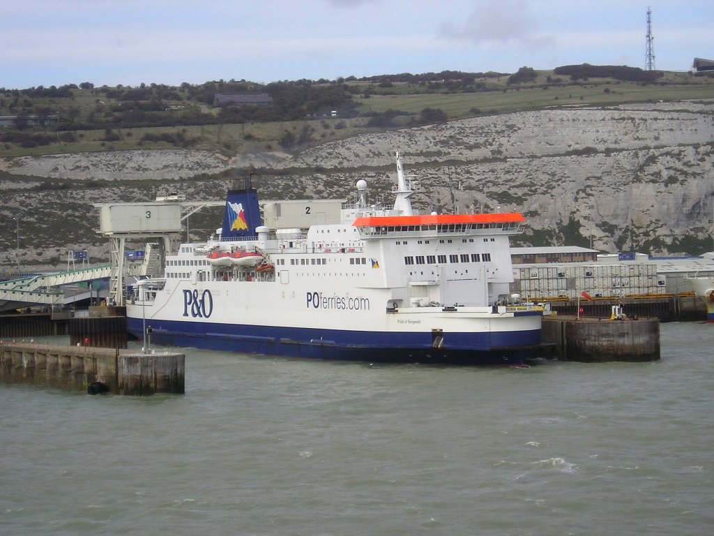 Pride of Burgundy, Dover April 2004 IMO Number: 9015254 MMSI Number: 232001470 Callsign: MQSQ9 Length: 170 m Beam: 28 m Photo by Paul Dashwood